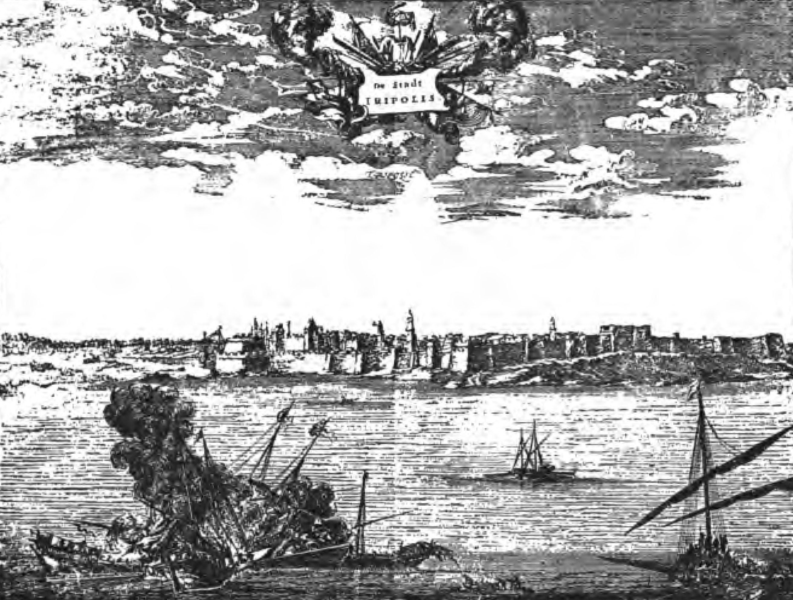 Tripoli in 1670, found in The Story of the Barbary Corsairs' by Stanley Lane-Poole, published in 1890 by G.P. Putnam's Sons.